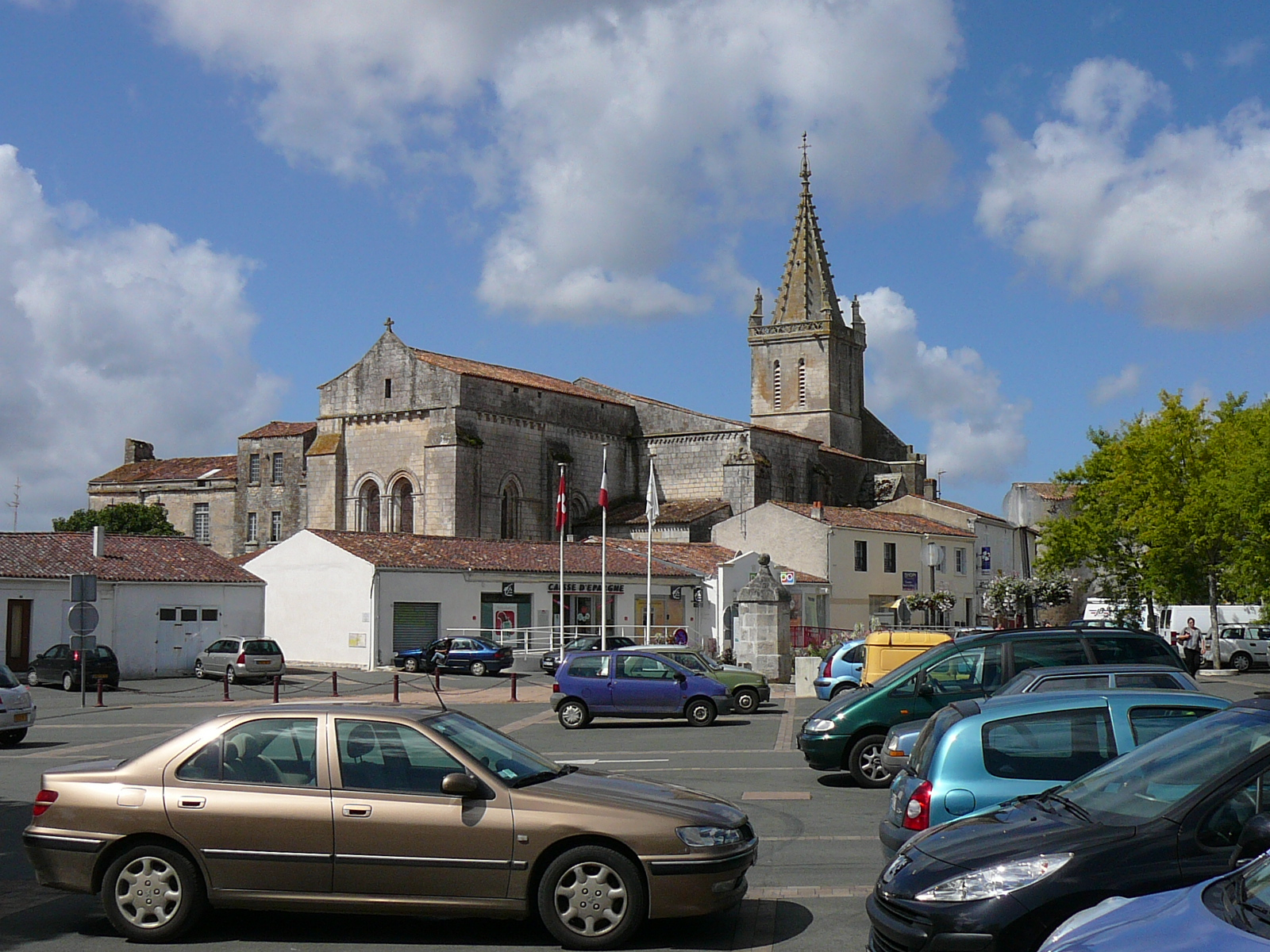 City center and romanesque church Saint-Pierre in Pont-l'Abbé-d'Arnoult. Charente-Maritime (17), Poitou-Charentes, France, Europe.